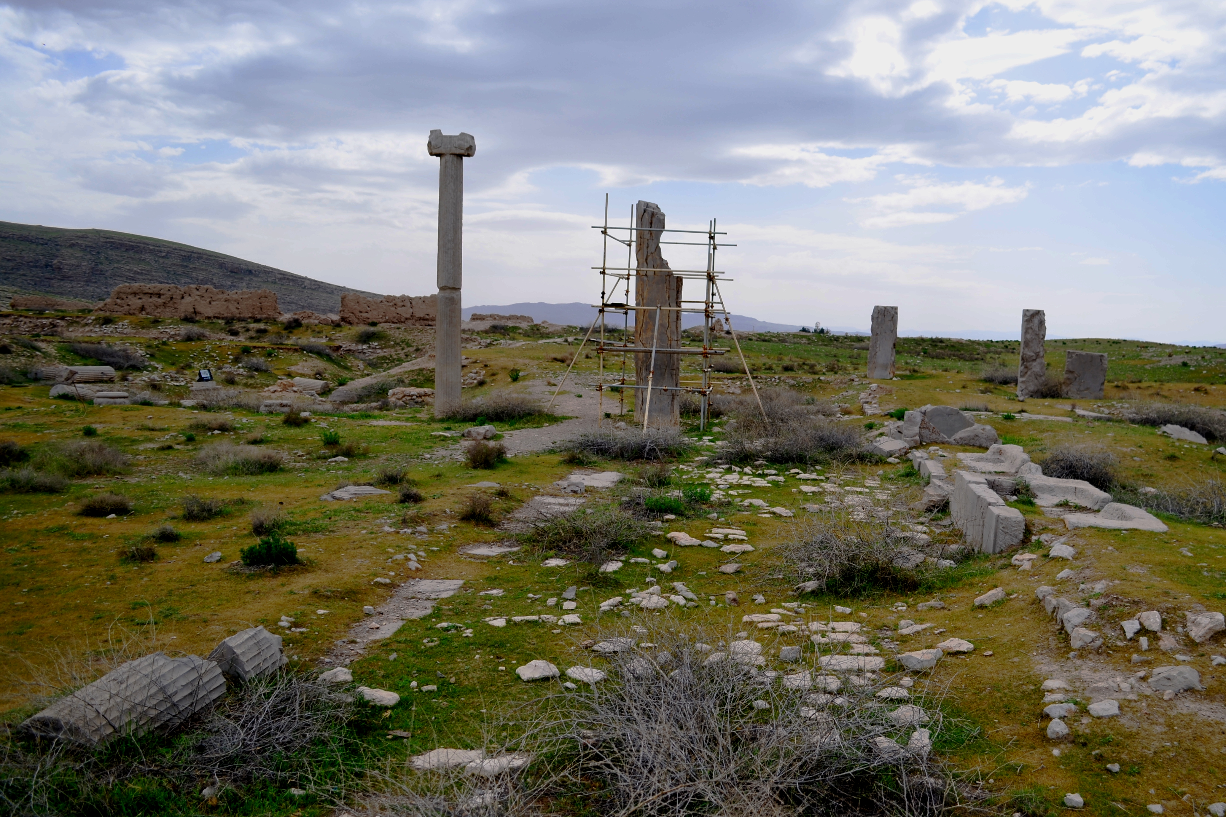 Estakhr